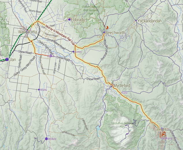 Map of the Murray to Mountains Rail Trail. Cartography by Steve Bennett, map data by OpenStreetMap contributors.